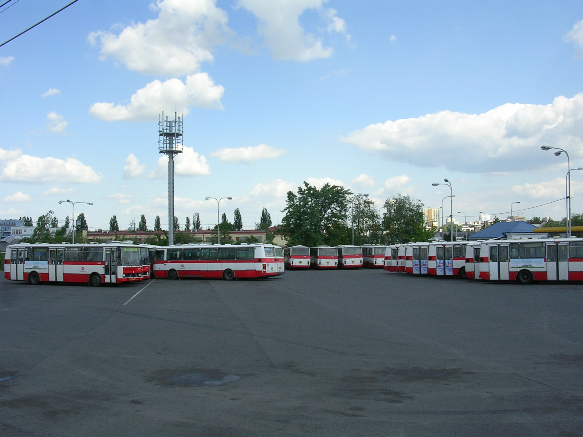 Michle, Prague, the Czech Republic. Bohdalec.